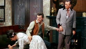 Bruce Cabot & Maureen O'Hara in McLintock! (cropped screenshot)